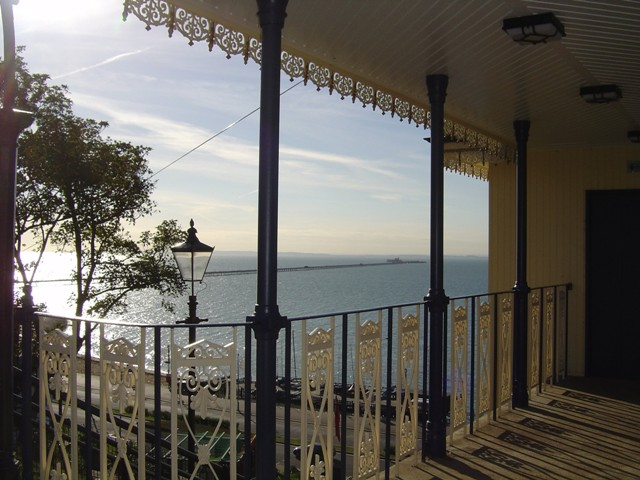 Southend-on-Sea Cliff Lift (Cliff Railway), view from top station across Thames Estuary, Pleasure Pier in the background.